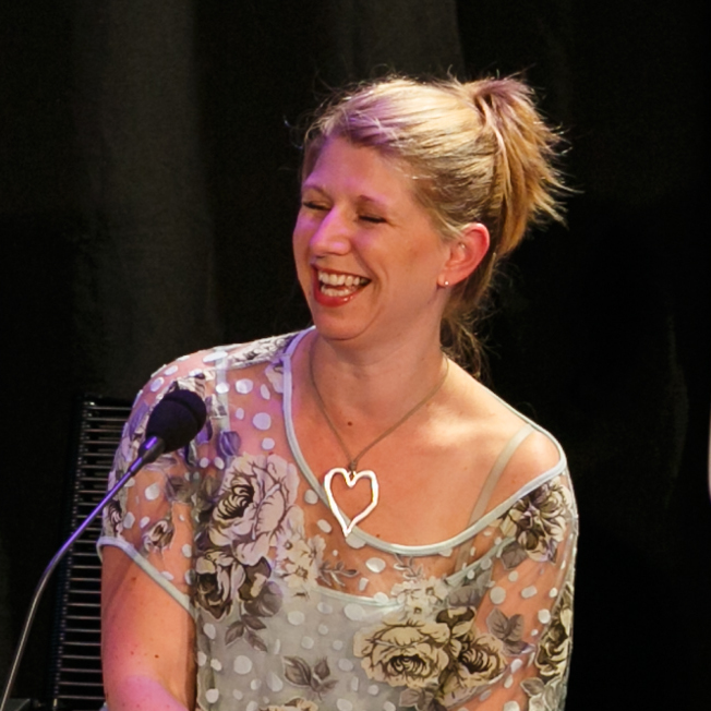 Quentin Cooper with Judges: Wendy Sadler, Mark Lythgoe, Martin Horwood MP